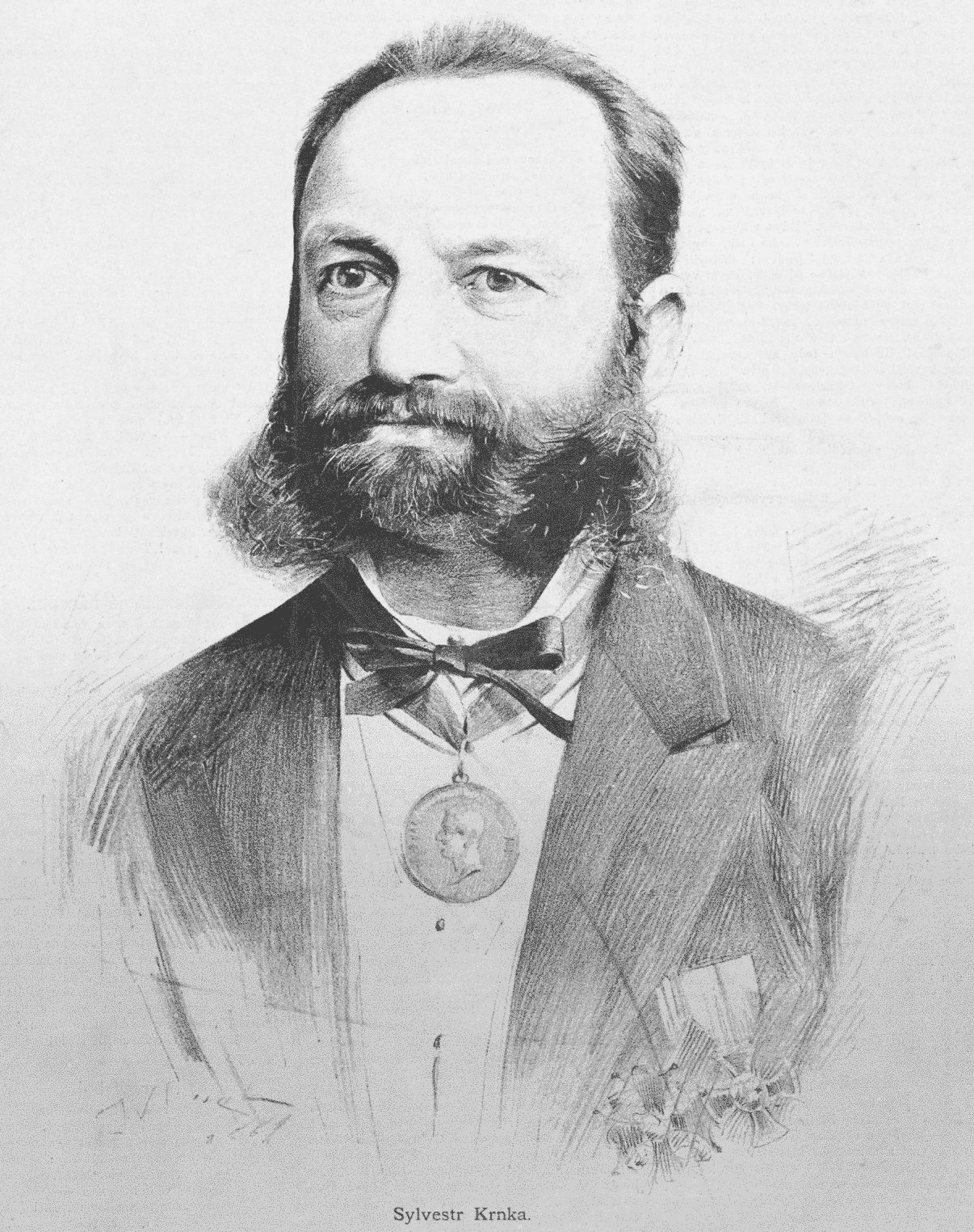 Portrait of Sylvestr Krnka, Czech inventor (towards the end of his life, he became famous for man-powered pedal streetcar, used for entertaining visitors of an exhibition in Prague in 1895.